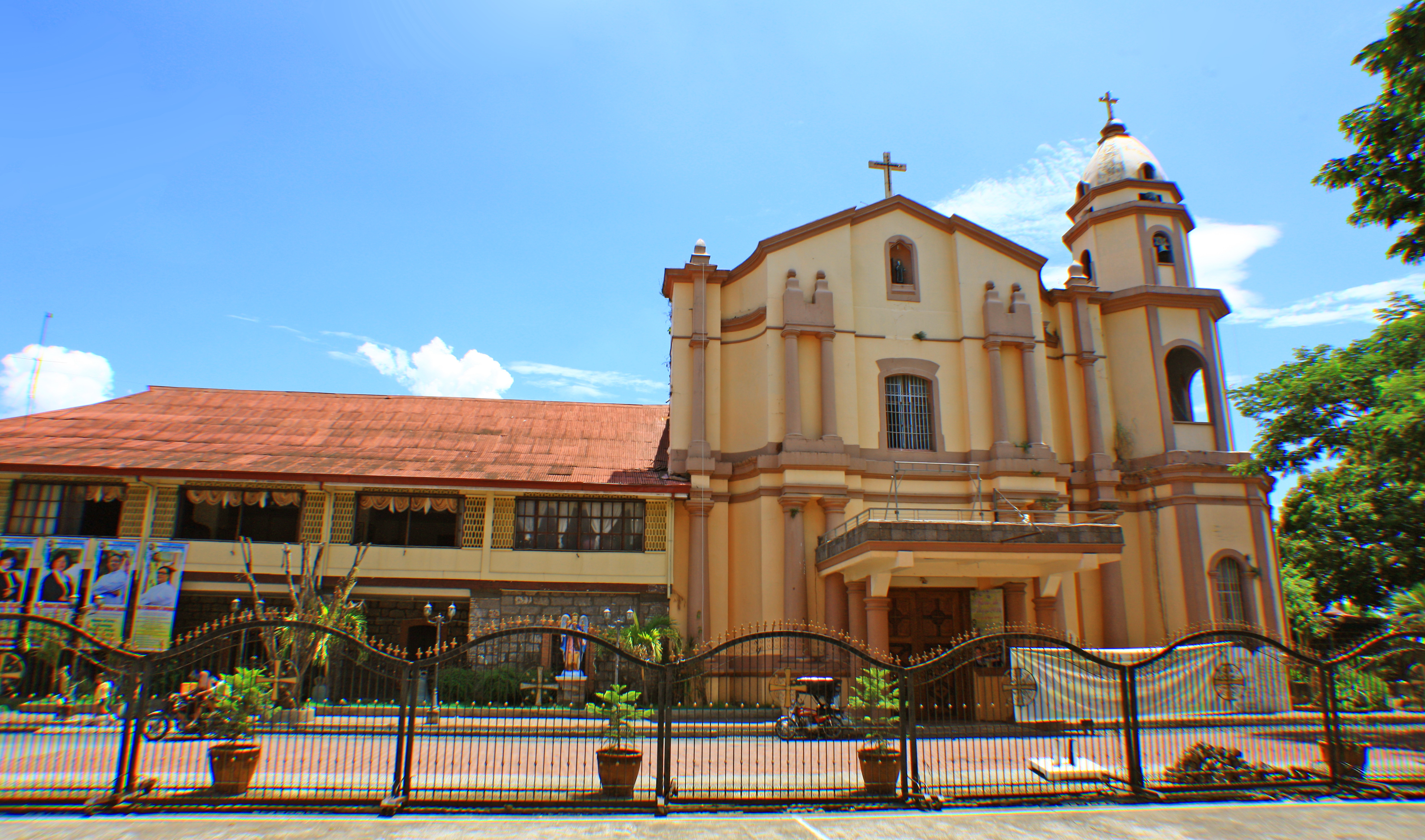 San Juan de Dios church (San Juan de Dios Parish Museum and Convent, Saint John of God Church (San Rafael, Bulacan) - San Juan de Dios Church in (Barangay Poblacion, San Rafael, Bulacan, Philippines wherein the Battle of San Rafael took place, wherein hundreds of retreating Filipino soldiers and civilians lost their lives during a battle with the Spanish on November 30, 1896 Final fortress of the Filipino troops, led by "Matang Lawin", of the Battle of Sna Rafael during the Spanish war. - Old church records Episcopal chair Life size images of the Last Supper).